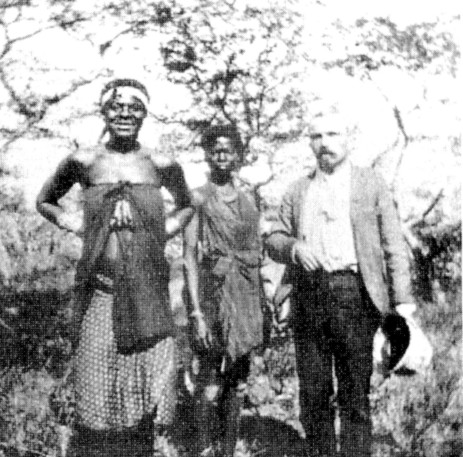 Dr. George Liegme, a 19th century Swiss missionary physician at the court of Ngungunanye.